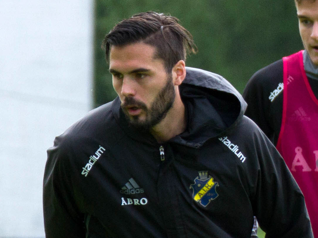 Denni Avdić training with AIK in 2016. Photo by Jakob Persson.